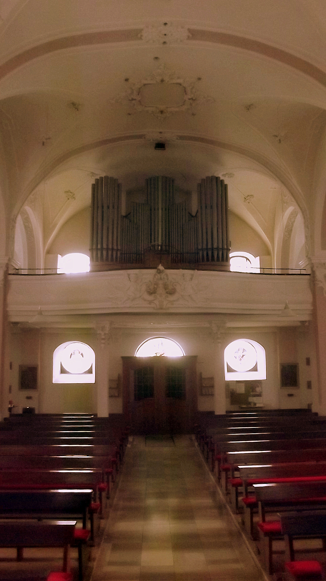 Interior of the roman catholic church in Züsch, Rhineland-Palatinate, Germany